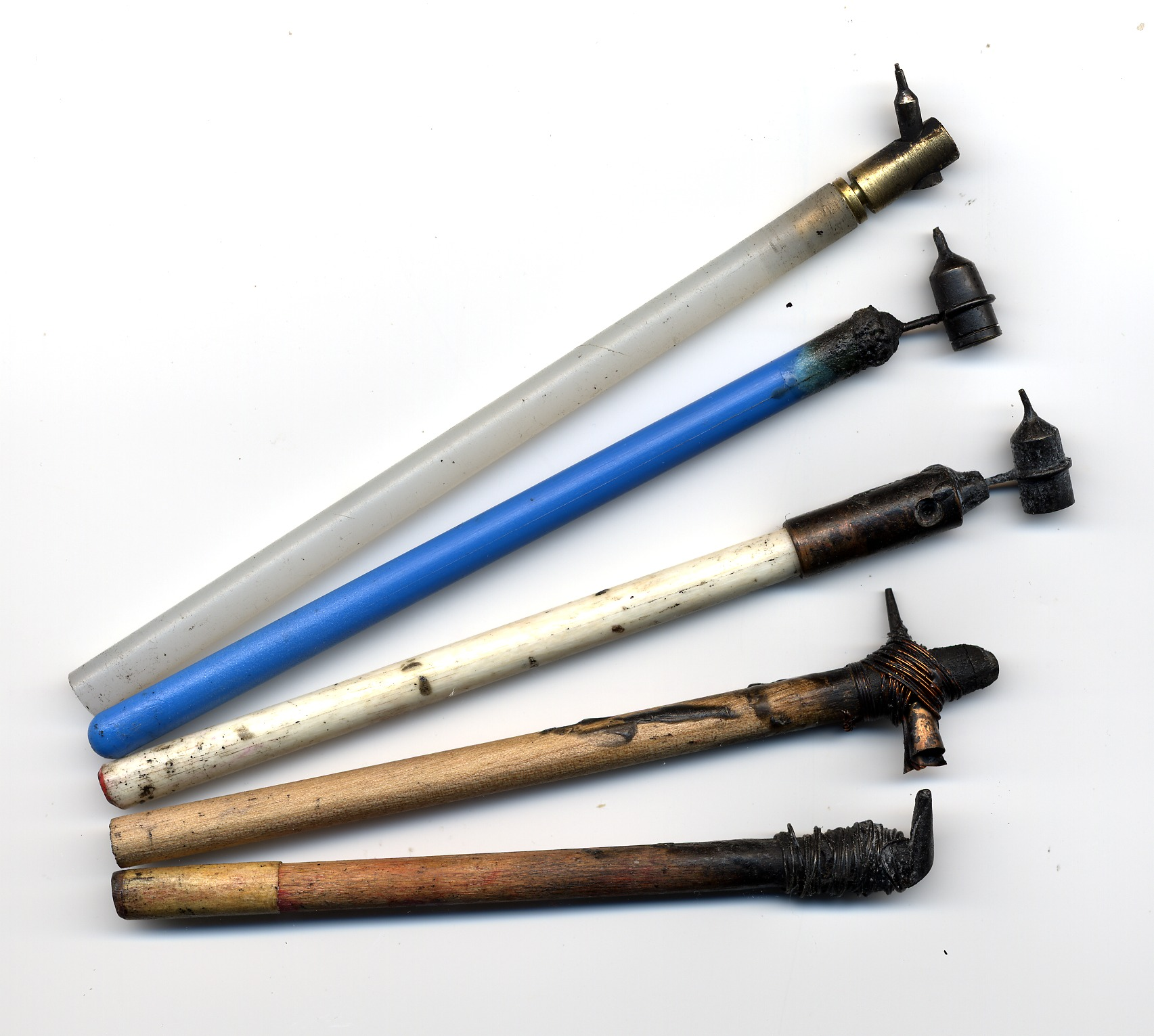 A variety of styluses, from traditional to modern for creating pysankas. Luba Petrusha